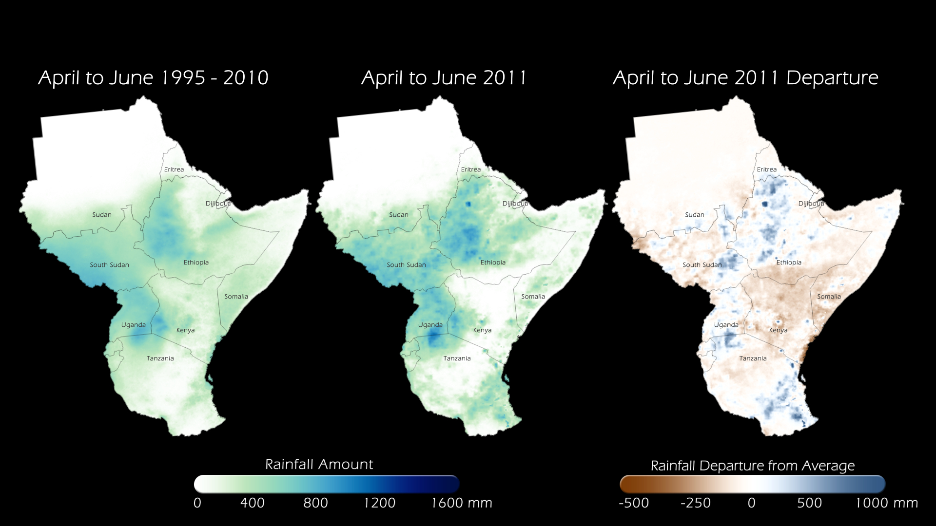 Prolonged drought in the Horn of Africa along with political turmoil has created a dire situation in Somalia. The Horn receives the majority of its precipitation during two wet seasons: one in the fall and another in the spring. The spring rains are especially critical, as the water is needed to last throughout the brutal sub-Saharan summer. This past year has been especially dry. Both wet seasons have failed to produce the rainfalls necessary to sustain crops and livestock, leading to widespread food shortages and famine. In many areas around the world, even the U.S., rain gauge data can be sparse. Nevertheless, accurate rainfall estimates are needed for weather models and hazard warnings, so NOAA has developed techniques to augment rainfall measurements by including infrared and microwave data from geostationary and polar-orbiting satellites. Besides aiding forecasts in the U.S., these estimate techniques have proven very useful for detecting possible famines in Africa, and the data is widely used by the U.N., the World Meteorological Organization, and USAID. Shown here are plots of the average spring wet season (April through June) rainfall since 1995, the total rainfall during the wet season this past year (April through June 2011), and how the past season compared to the long-term average. Drier than normal conditions (brown colors) can be seen in the image on the far right throughout much of Somalia, Ethiopia, Kenya, The Republic of Tanzania, Uganda, and the newly-formed South Sudan.